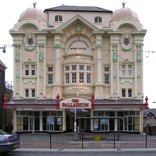 The Palladium, Llandudno